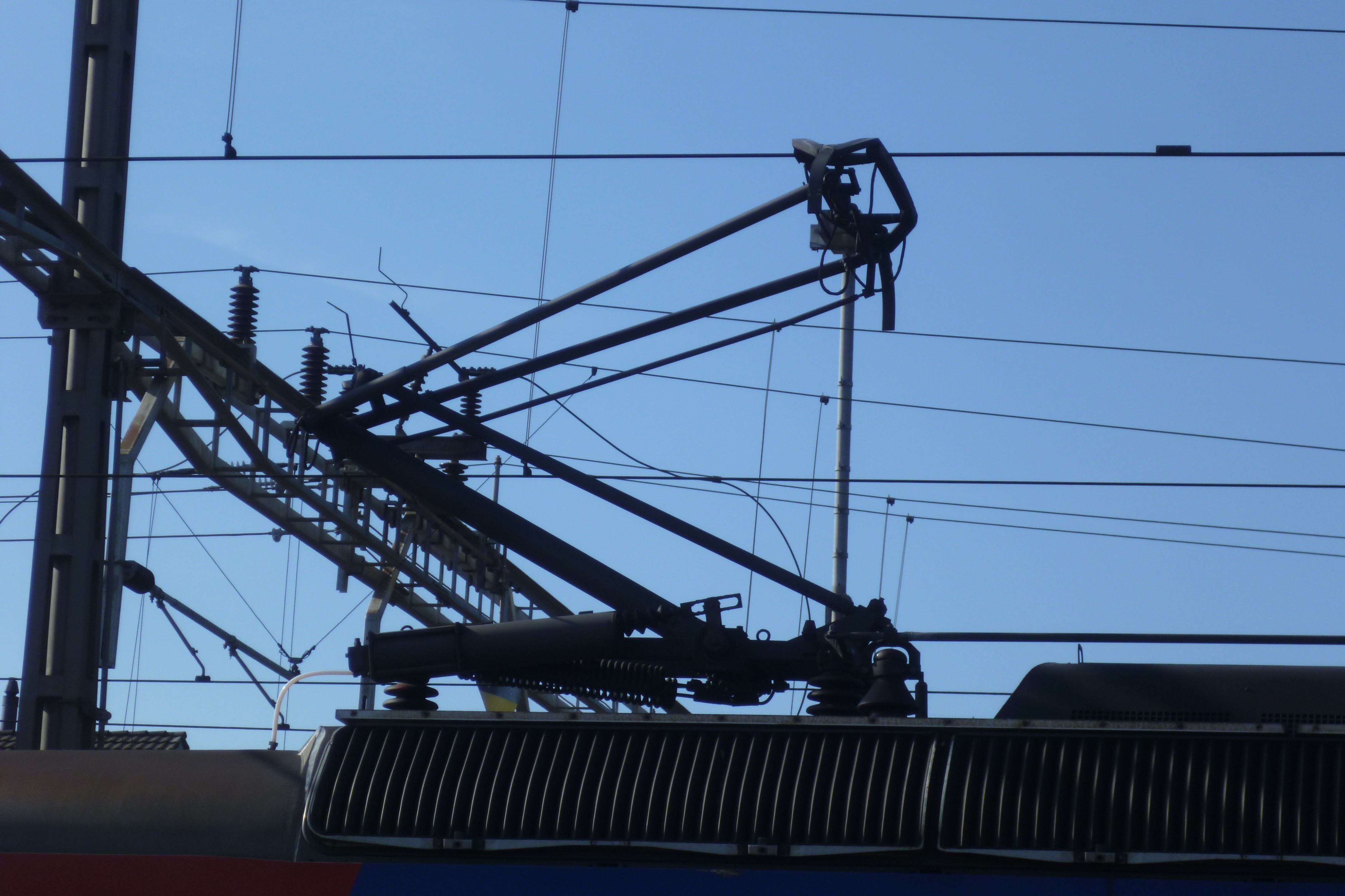 Rotkreuz train stationSBB Re 421 380-7(SBB Re 4/4 II 11380) of 3rd seriesPantograph type ESa02-2500 with contact shoes 1450 mm for Switzerland